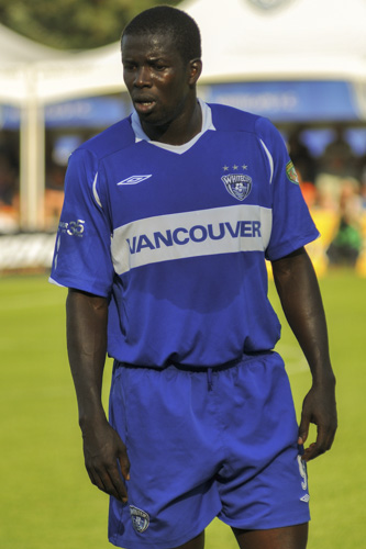 Picture of association football player Marlon James